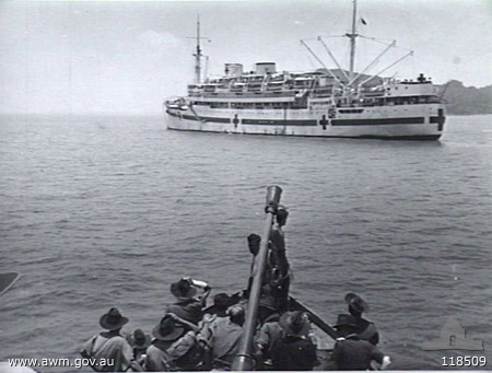 Kuching, Sarawak, Borneo. 1945-09-13. Kuching Force. Recently released Australian Prisoners of War being transferred to the hospital ship Wanganella by the United States Navy Submarine Chaser 648. Australian ex-Prisoners of War in foreground.